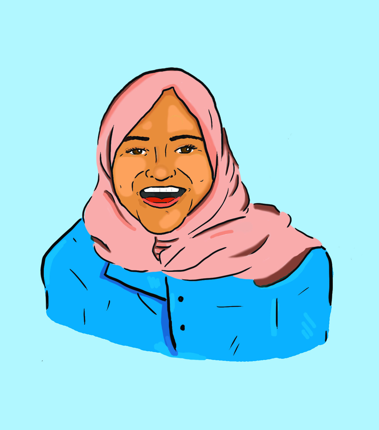 Digitial illustration of youtuber, activist and comedian Hatoon Kadi. Created for her english language wikipedia page as part of BBC 100 Women. Created in London by illustrator, Hannah Eachus.